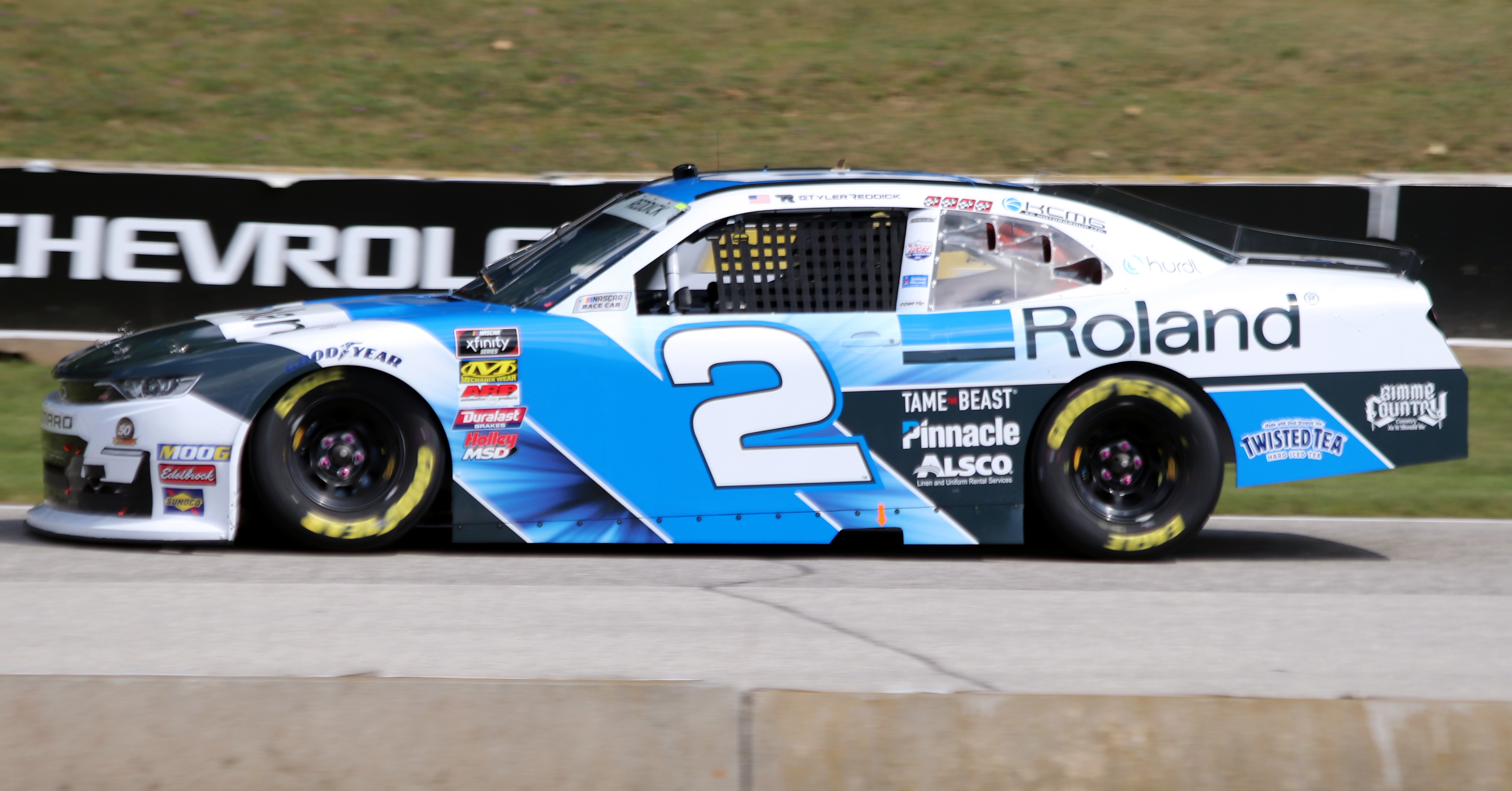 The #2 Chevrolet Camaro of Tyler Reddick at the NASCAR CTECH 180.